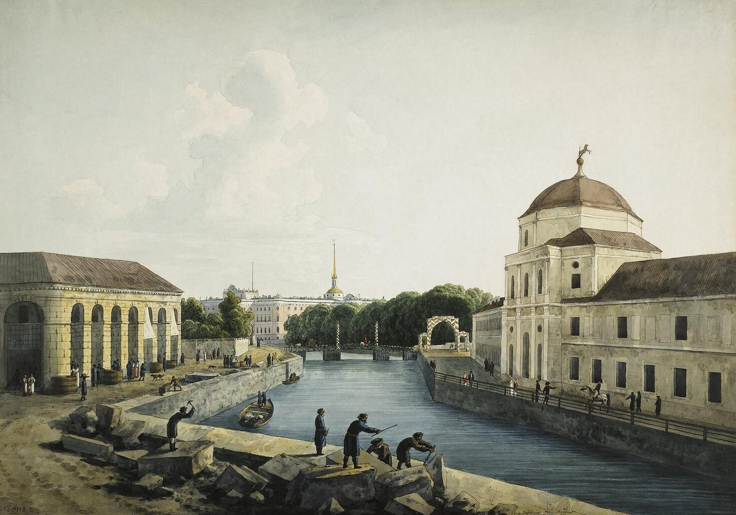 “View of the Moika River by the Imperial Stables”. Series “Views of St Petersburg”. Watercolour and Indian ink. 60x68 cm. State Hermitage. Gift of the artist to Emperor Alexander I (1810)